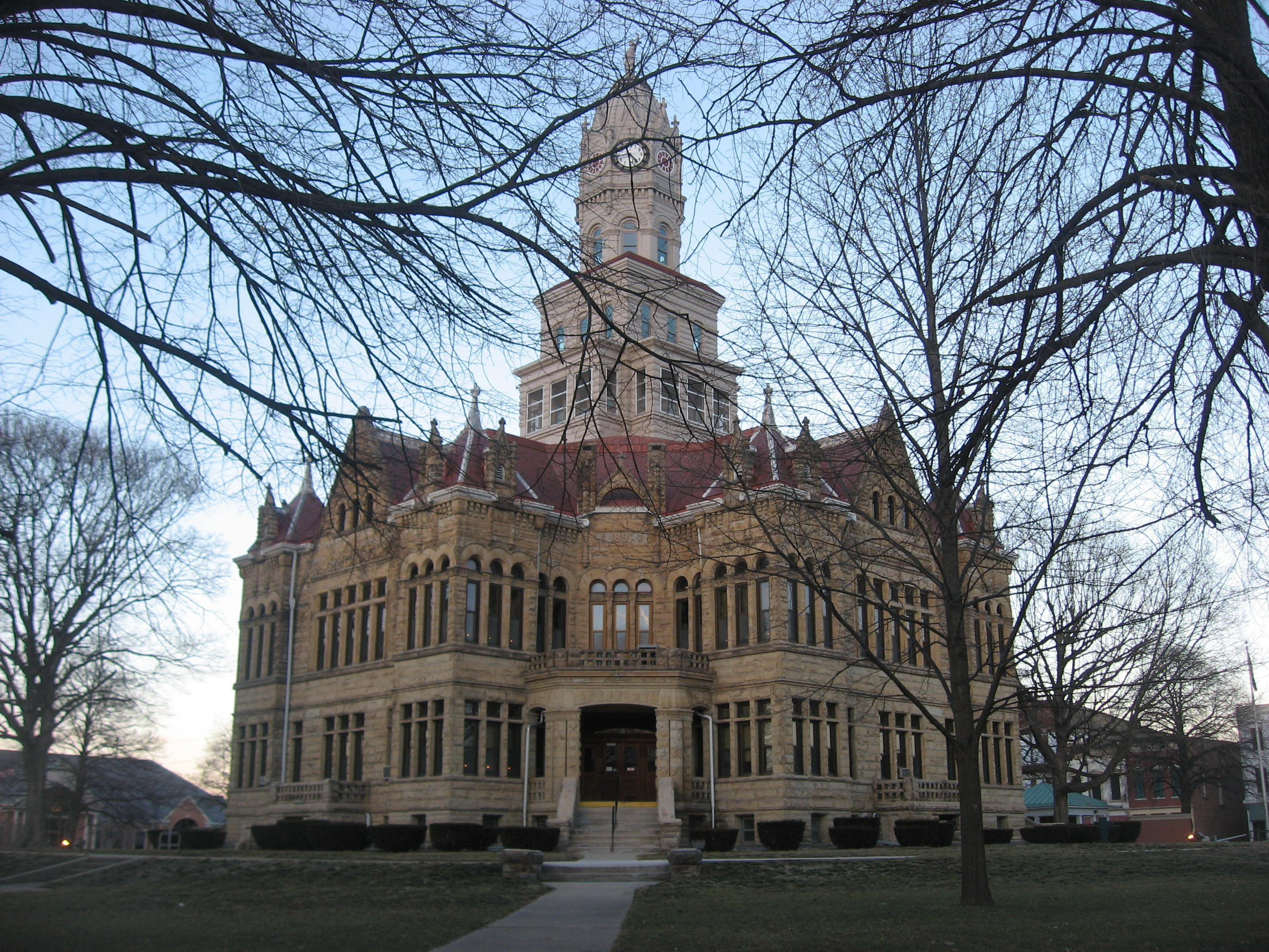 Western and southern sides of the Edgar County Courthouse, located along Main Street (U.S. Route 150/Illinois Route 1) on Courthouse Square in Paris, Illinois, United States. Built in 1891, it is listed on the National Register of Historic Places.